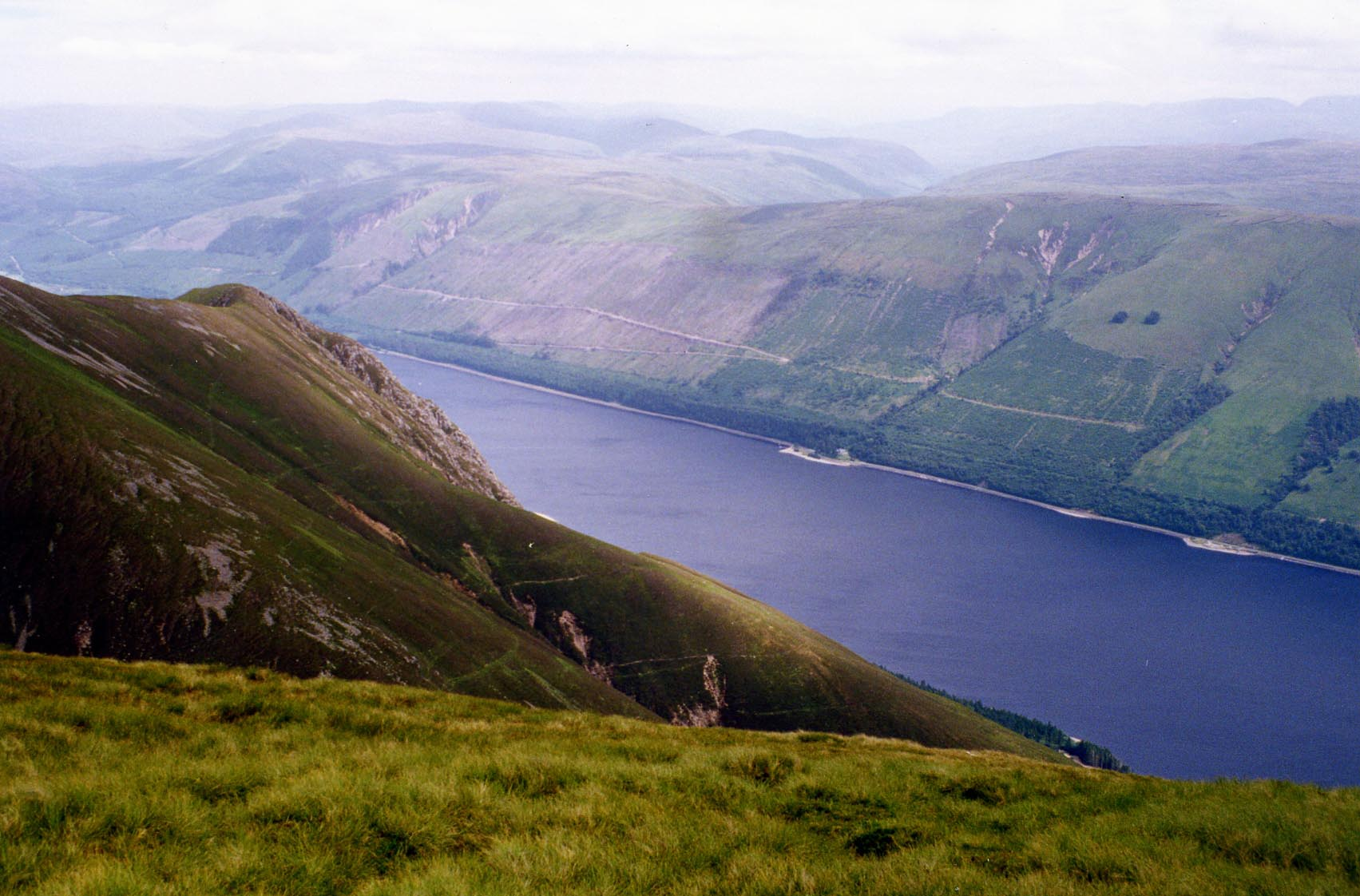 Personal picture taken by Mick Knapton